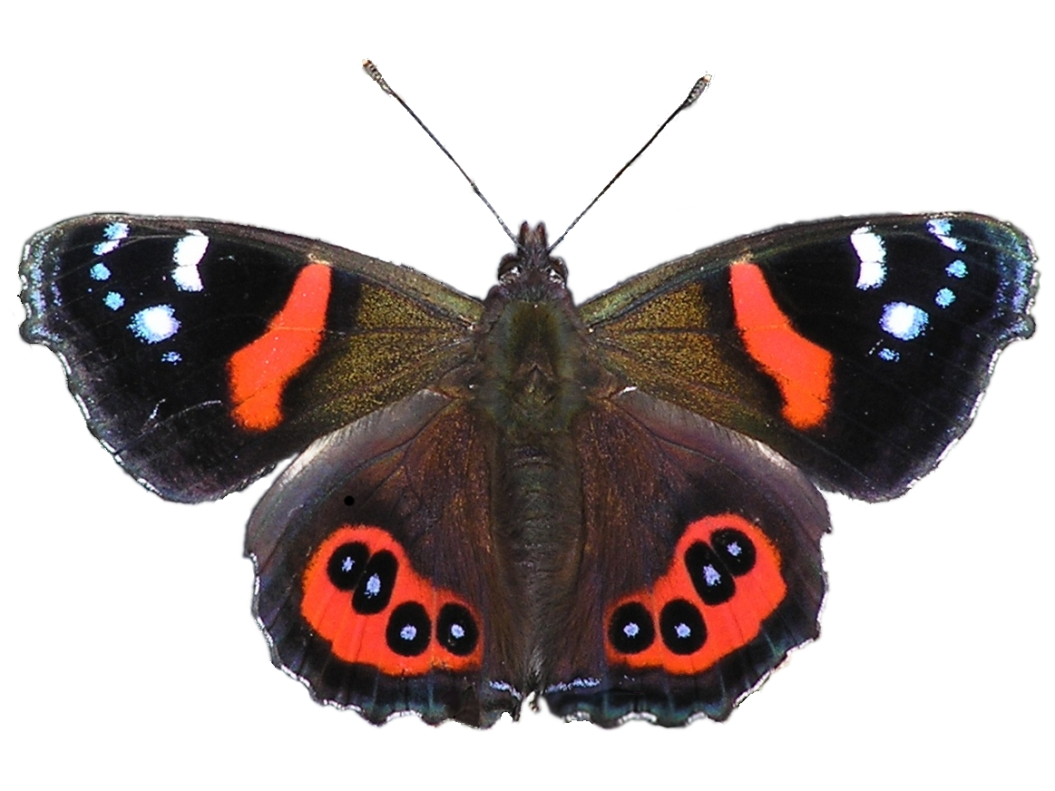 NZ Red Admiral Butterfly in Wellington, New Zealand Māori: Kahukura